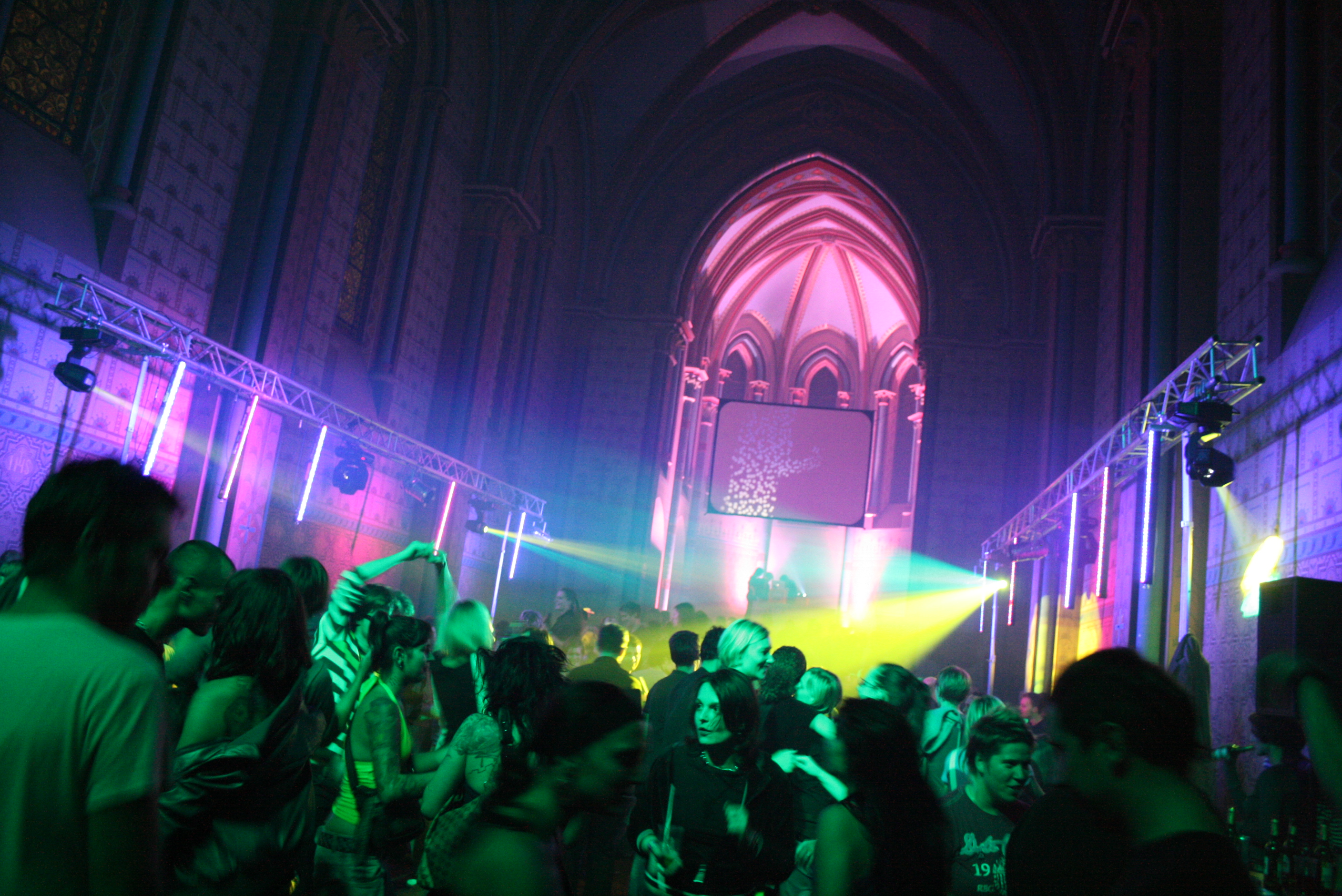 Church Sacré Coeur in Prague during a festival party "Homolution". Off-program of the 10th queer film festival Mezipatra 2009.